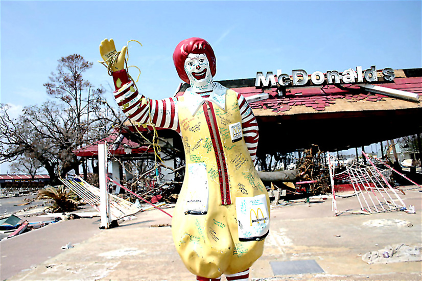 Storm surge damage along Highway 90 on the Mississippi Gulf Coast (early September, 2005). Photo by Gary Mark Smith.